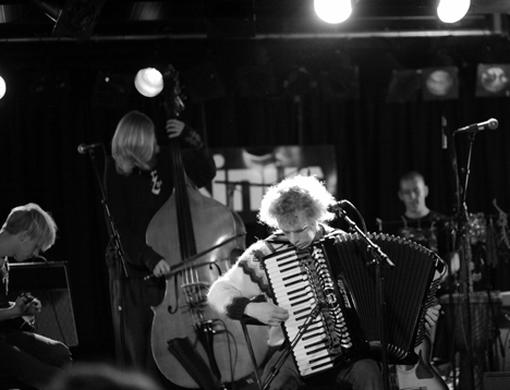 Pål Moddi Knutsen (middle) together with Einar Stray, Erik Normann Aanonsen and Jørgen Nordby, live at Sinus, Bodø, Norway